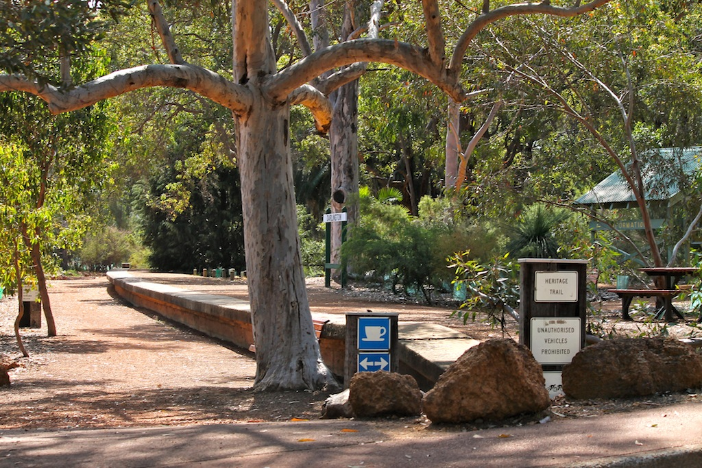 Darlington former railway station patform